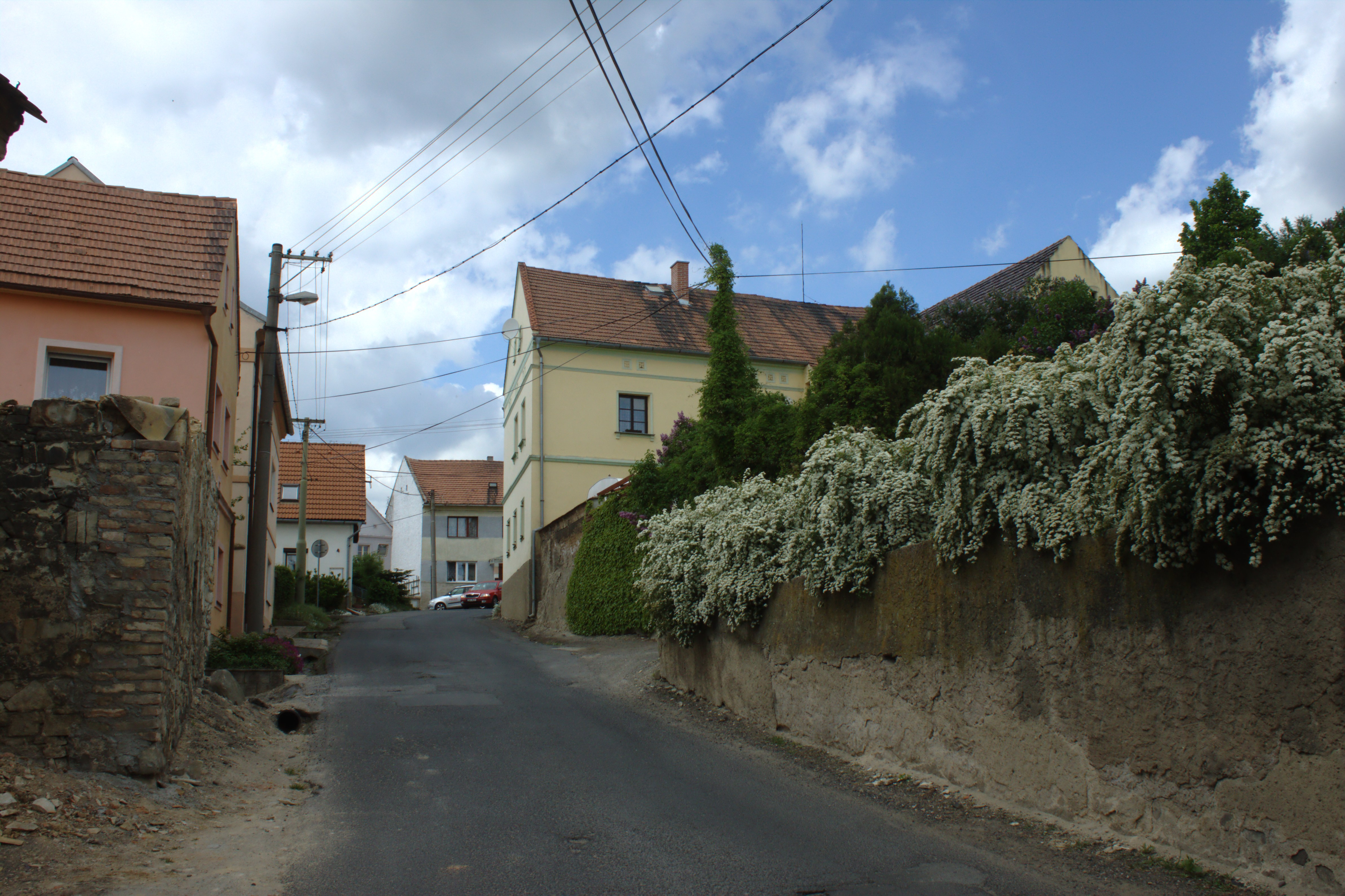 One of the road in the village of Miřejovice near Litoměřice, CZ. This one passes diagonally across the village